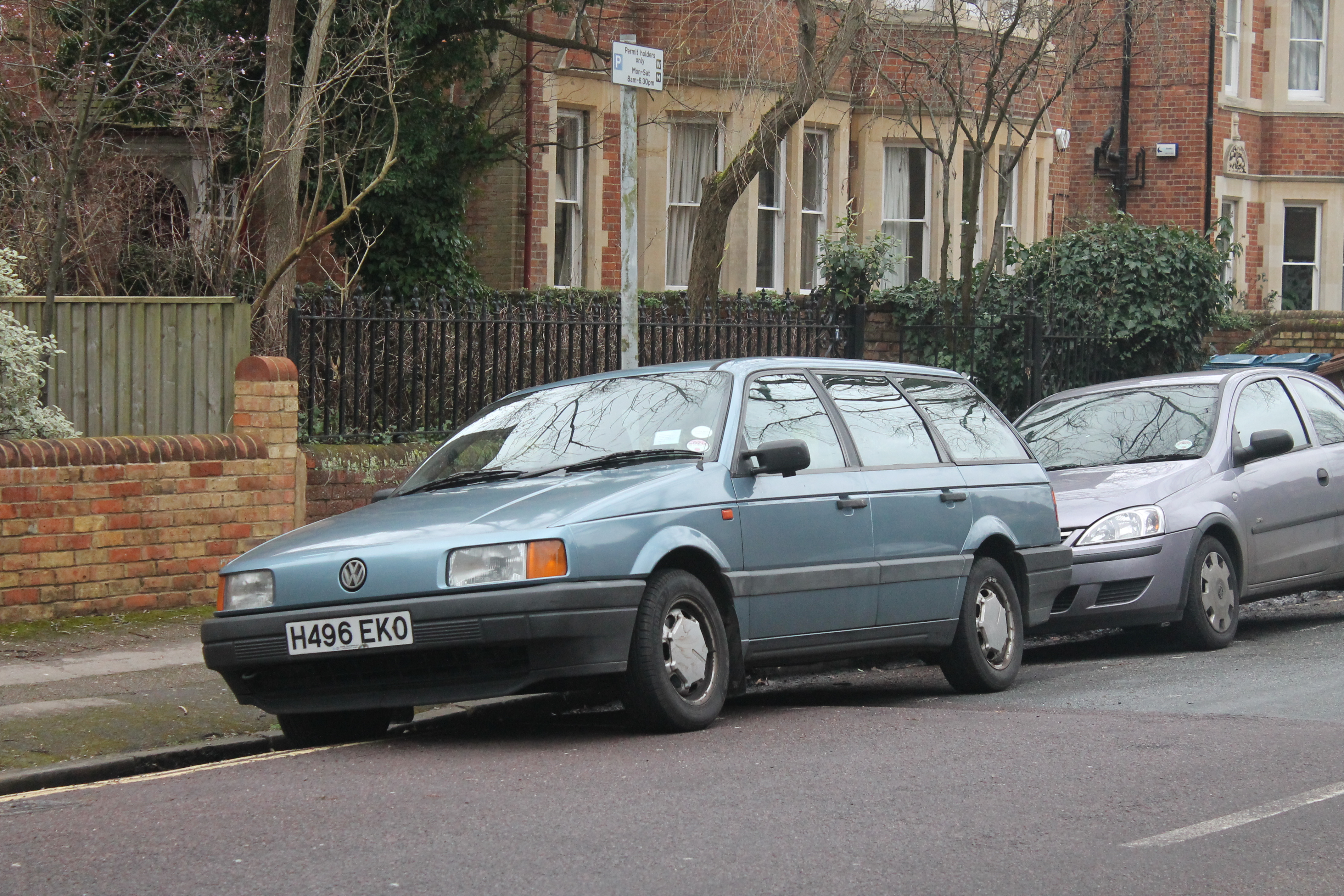 Don't see too many of the earlier bubble shaped Passats like this any more. I prefer them to their facelifted replacement. The vehicle details for H496 EKO are: Date of Liability 01 03 2015 Date of First Registration 27 02 1991 Year of Manufacture 1991 Cylinder Capacity (cc) 1984cc CO₂ Emissions Not Available Fuel Type PETROL Export Marker N Vehicle Status Licence Not Due Vehicle Colour BLUE Vehicle Type Approval Not Available